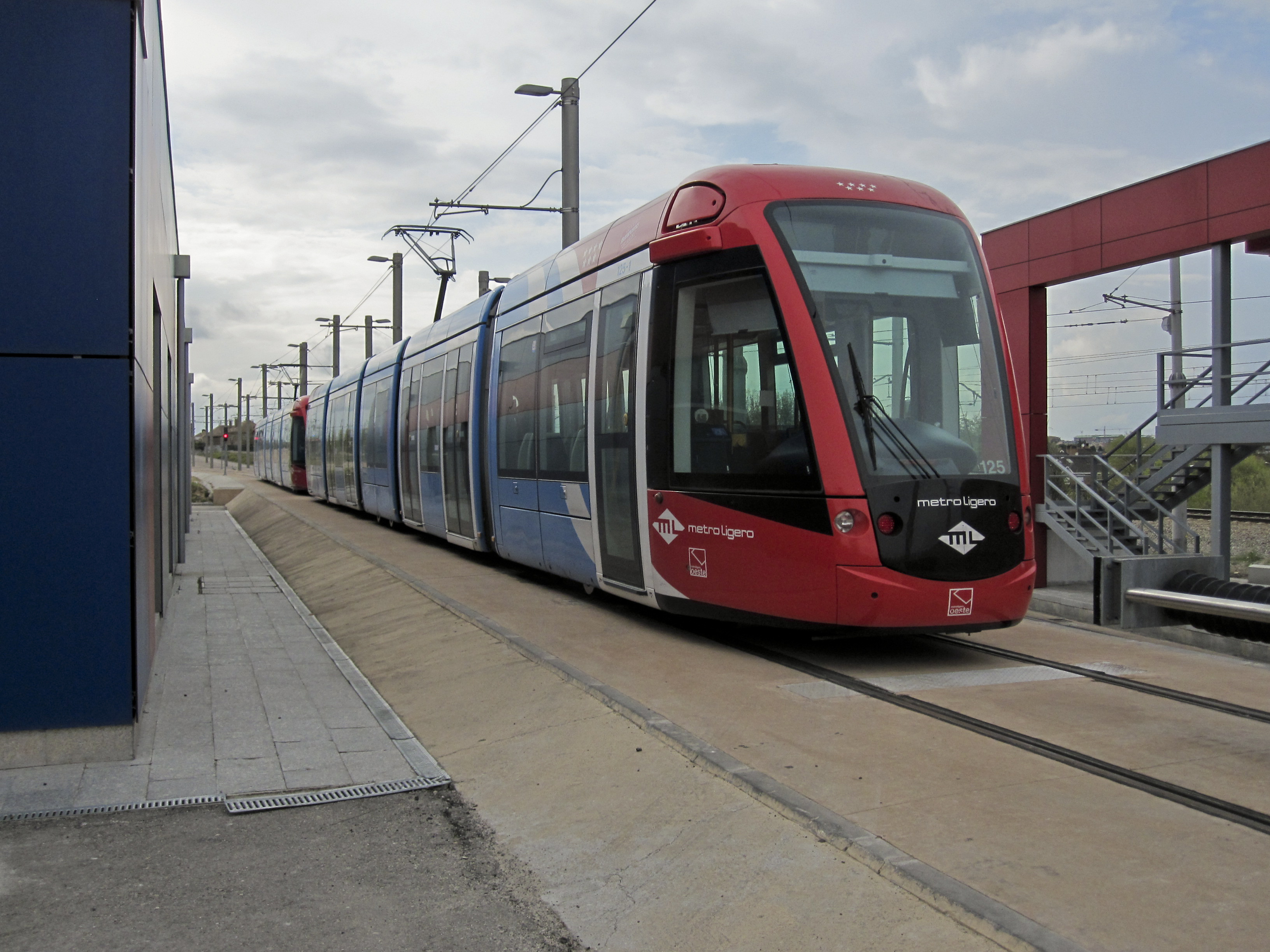 Metro Ligero train-set, resting in Aravaca, Madrid, Spain.